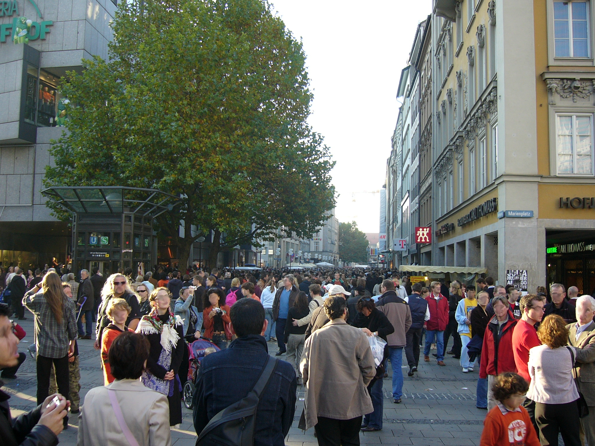 Beginning of the Kaufingerstrasse seen from Marienplatz, the main pedestrian zone in Munich, Germany — a regular day during opening hours.